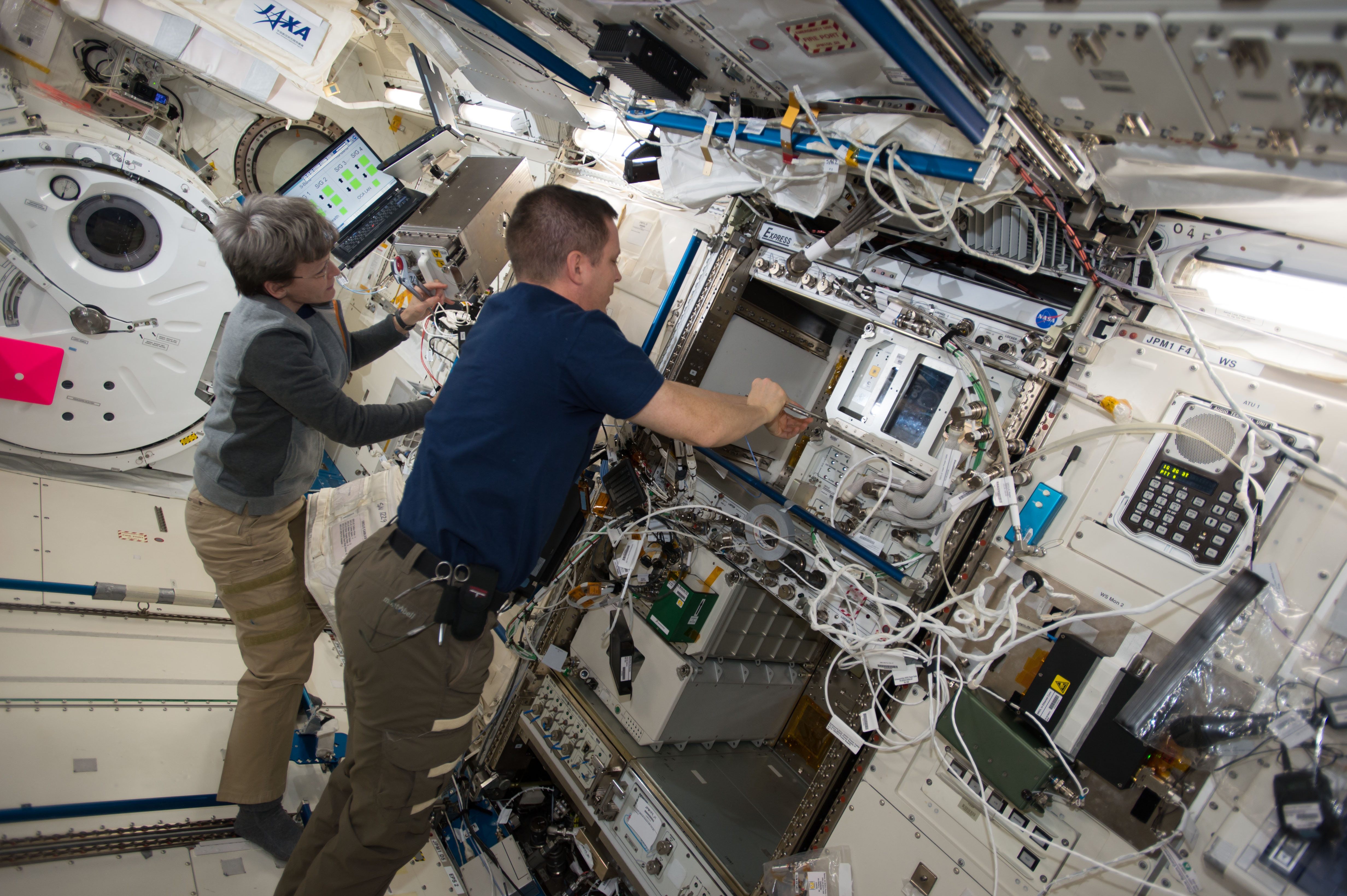 Astronauts Peggy Whitson and Jack Fischer work on station systems inside Japan’s Kibo laboratory module.